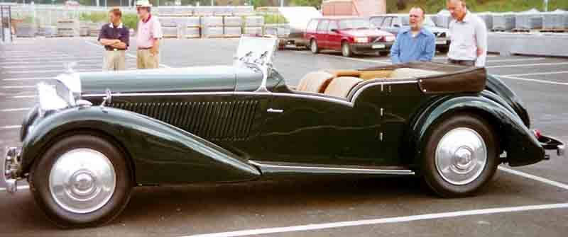 Bentley 4,25-Litre Tourer 1936